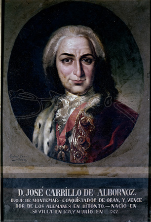 Duke of Montemar